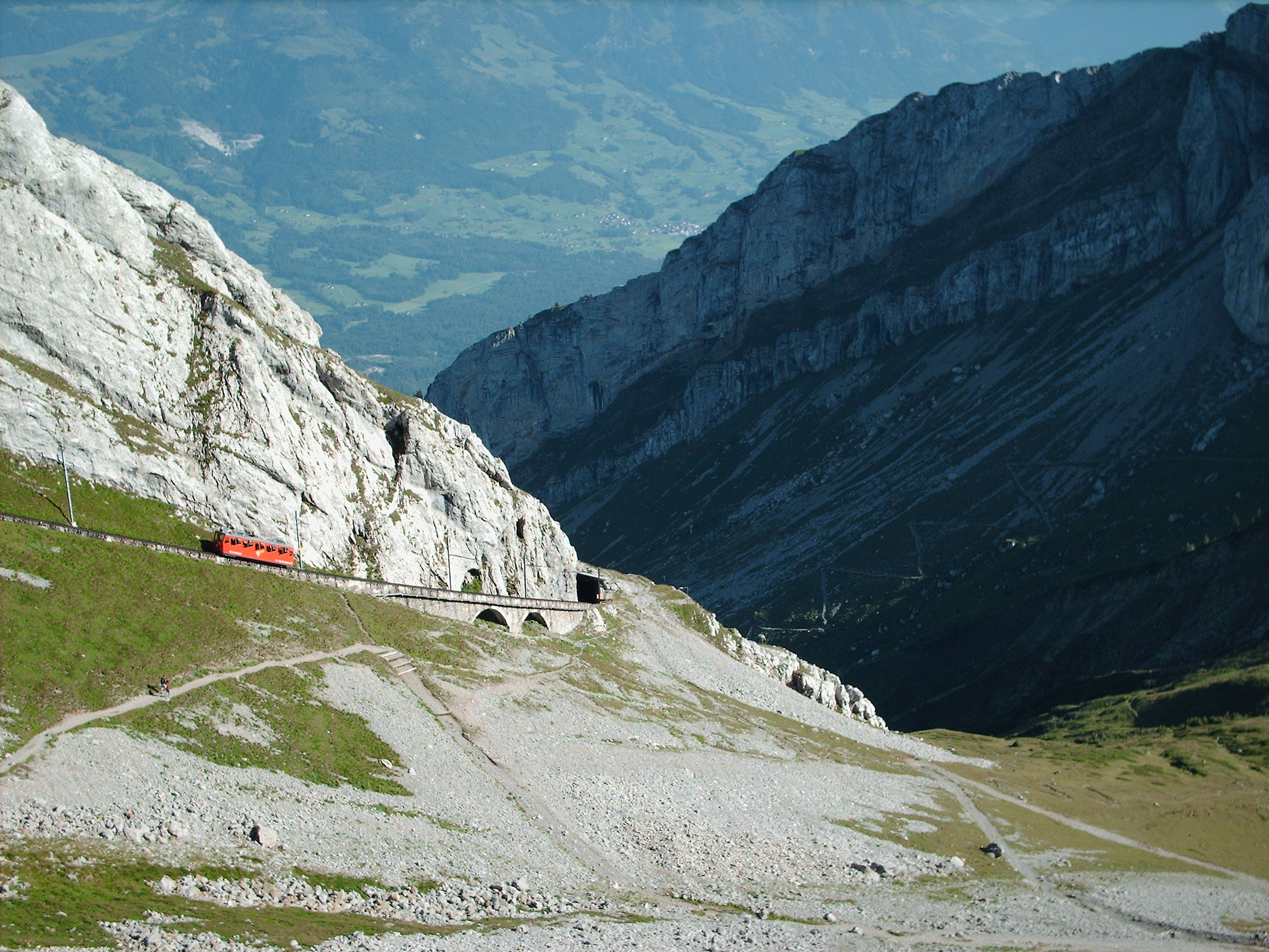 From top of Pilatus, looking at railway